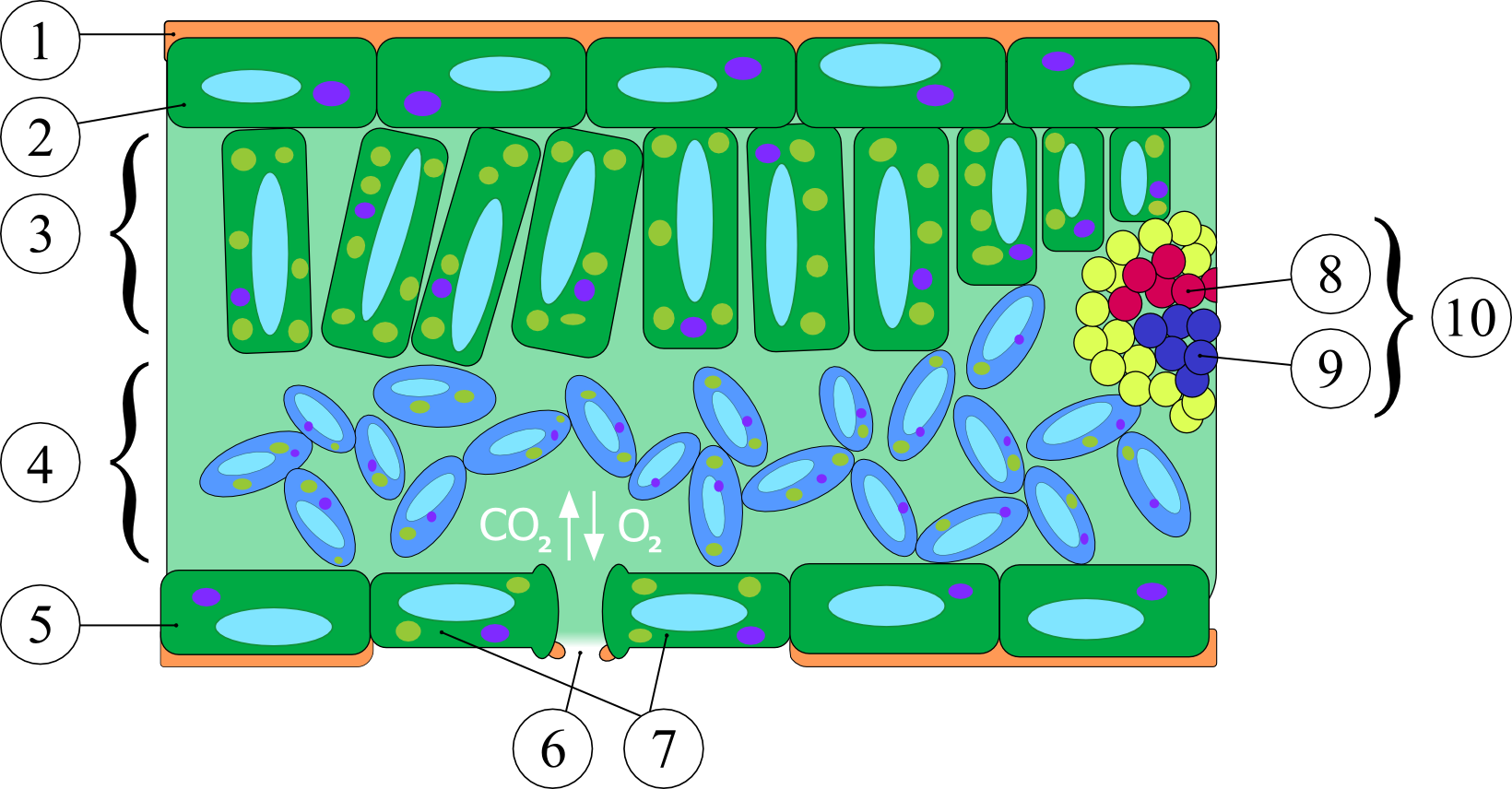 Leaf anatomy. Legend: 1) cuticle 2) upper epidermis 3) palisade mesophyll 4) spongy mesophyll 5) lower epidermis 6) stoma 7) guard cells 8) xylem 9) phloem 10) vascular bundle.